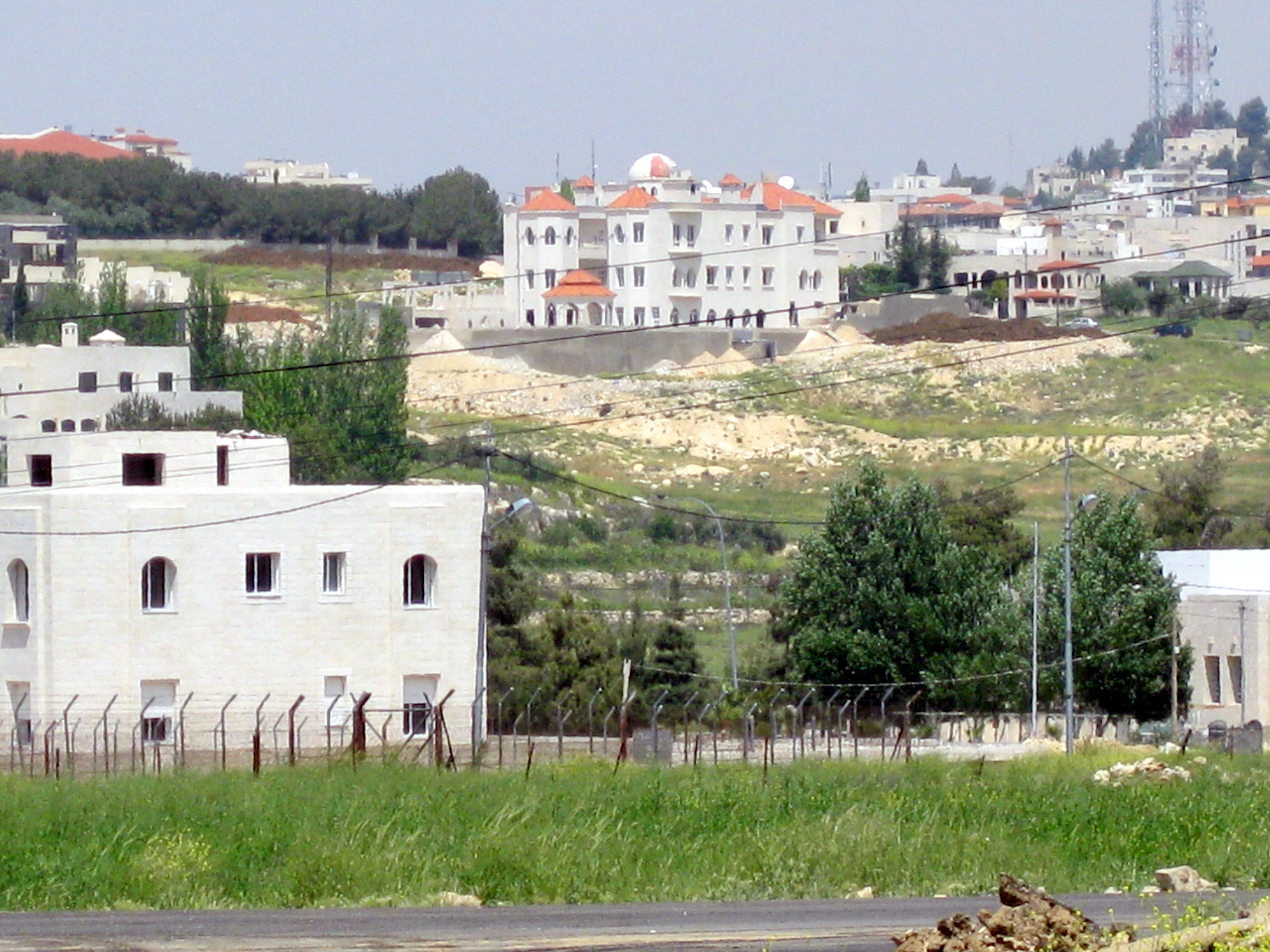 Spring in Amman